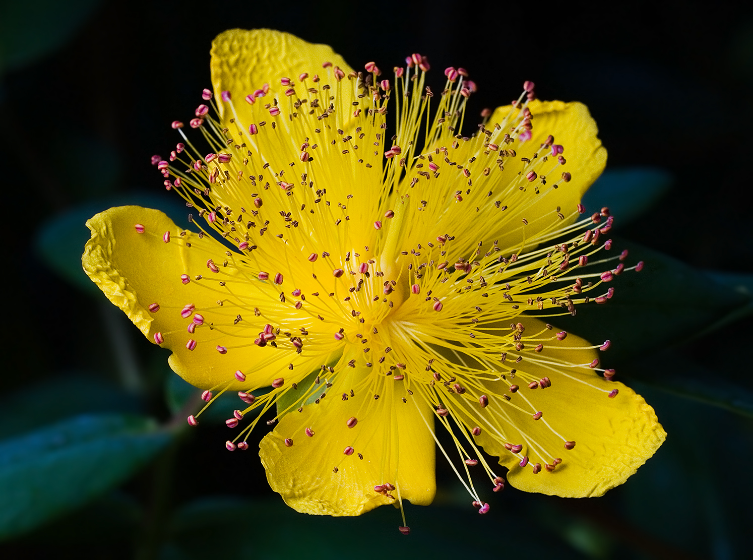 Rose of Sharon in Britain and Australia, Aaron's beard, Great St-John's wort or Jerusalem star Camera data Camera Canon EOS 400D Lens Canon EF 70-200mm f4L w/ 12mm extension tube Flash Shoot through umbrella left Focal length 122 mm Aperture f/11 Exposure time 1/160 s Sensivity ISO 400